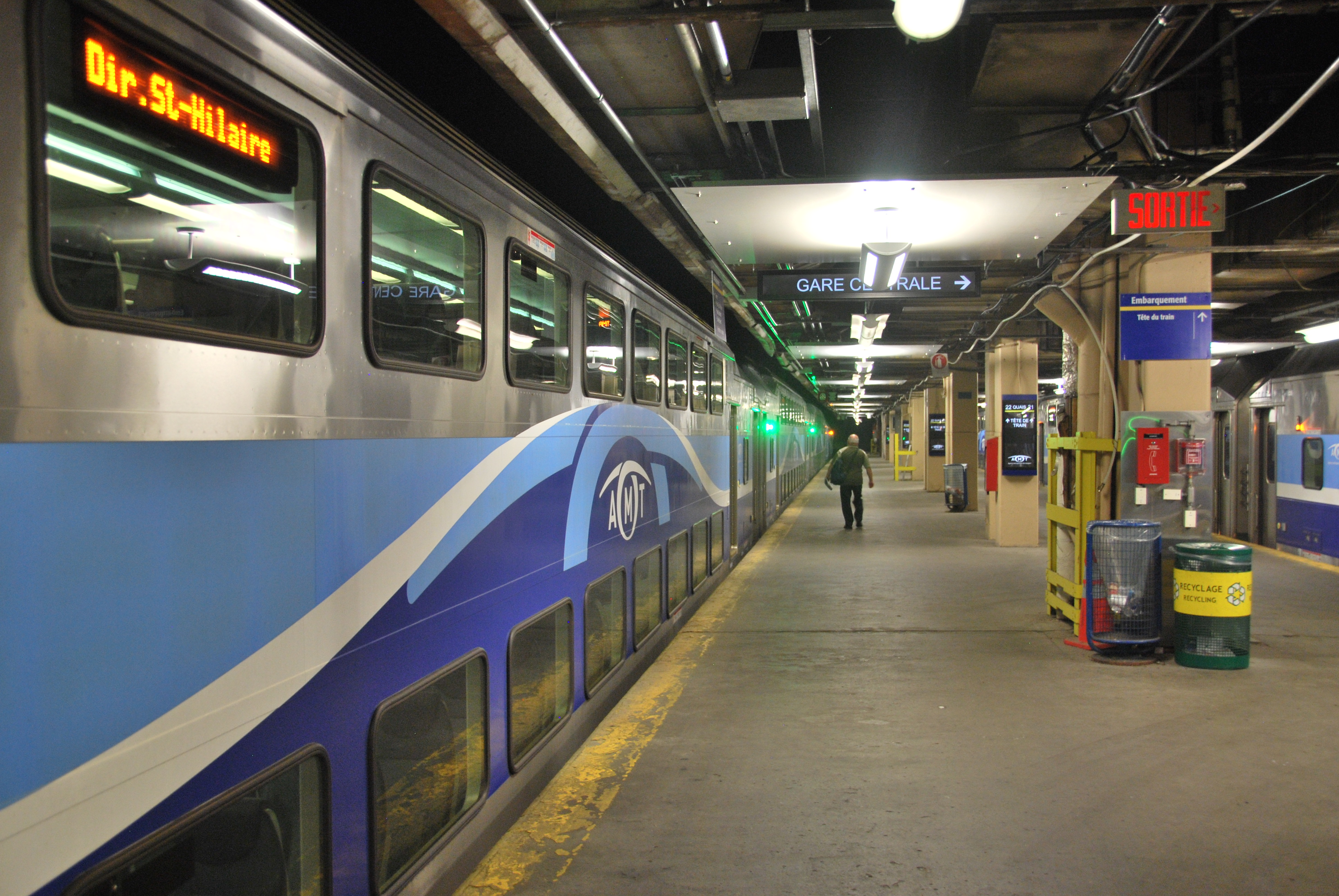 AMT trains awaiting at Central Station.